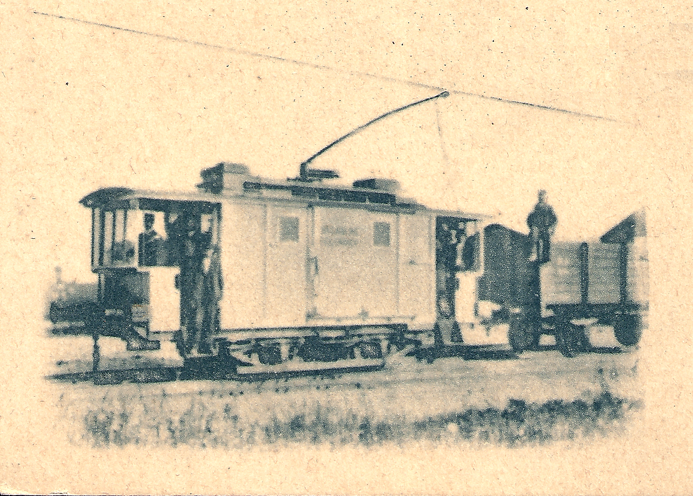 Freight electric multiple unit of the local train Bad Aibling - Feilenbach 1897